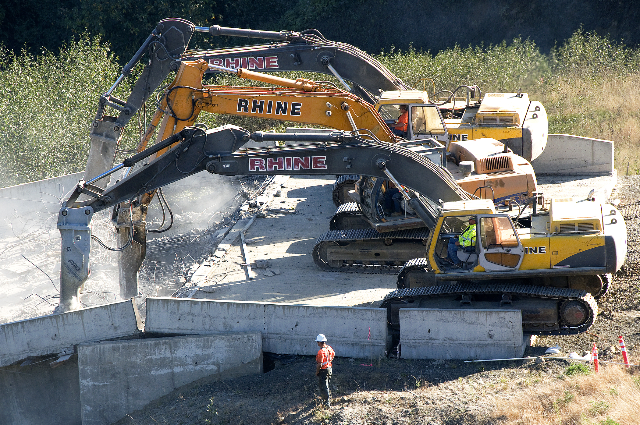 Chewing it up